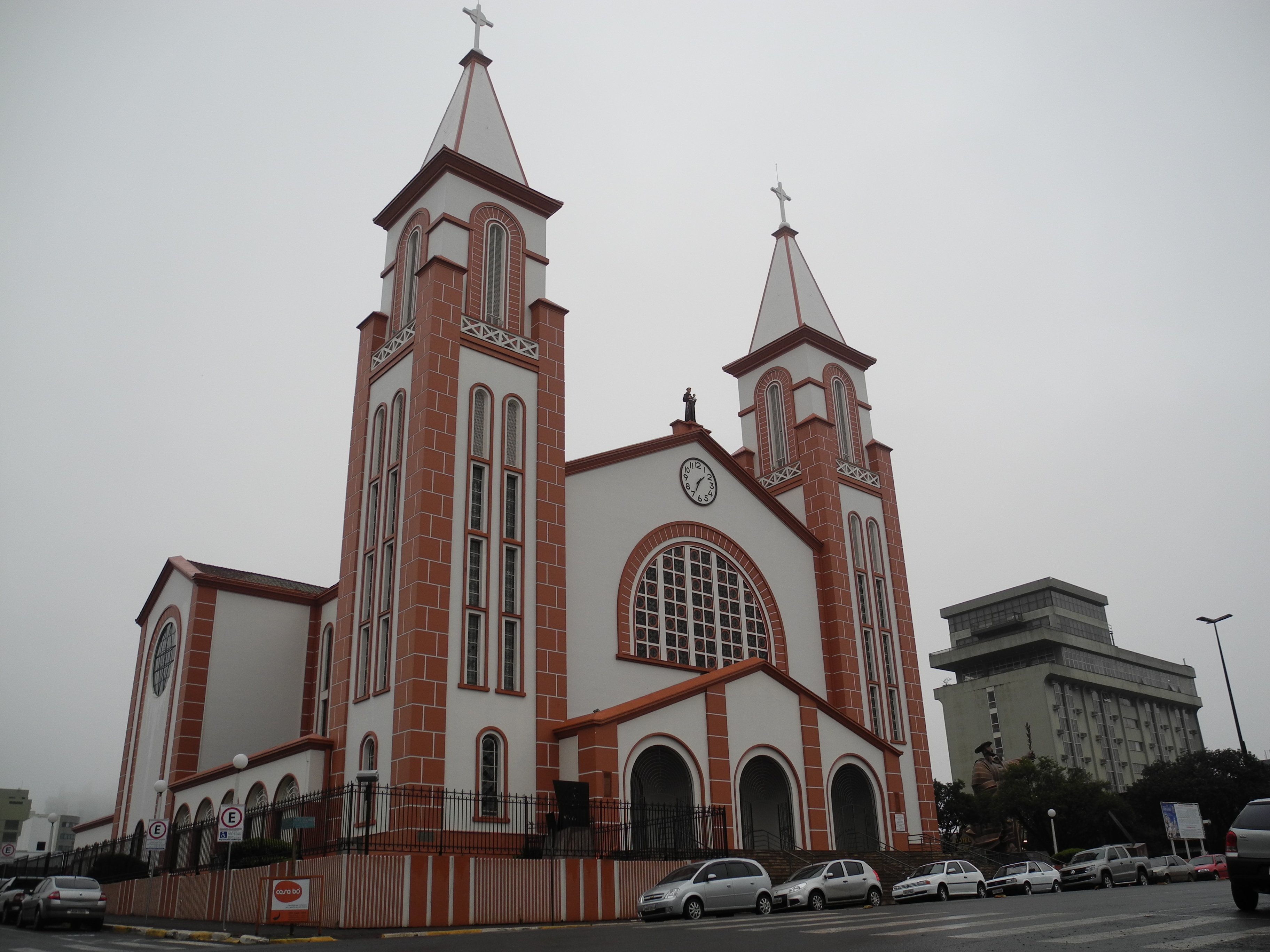 Chapecó, Santa Catarina, Brazil Church